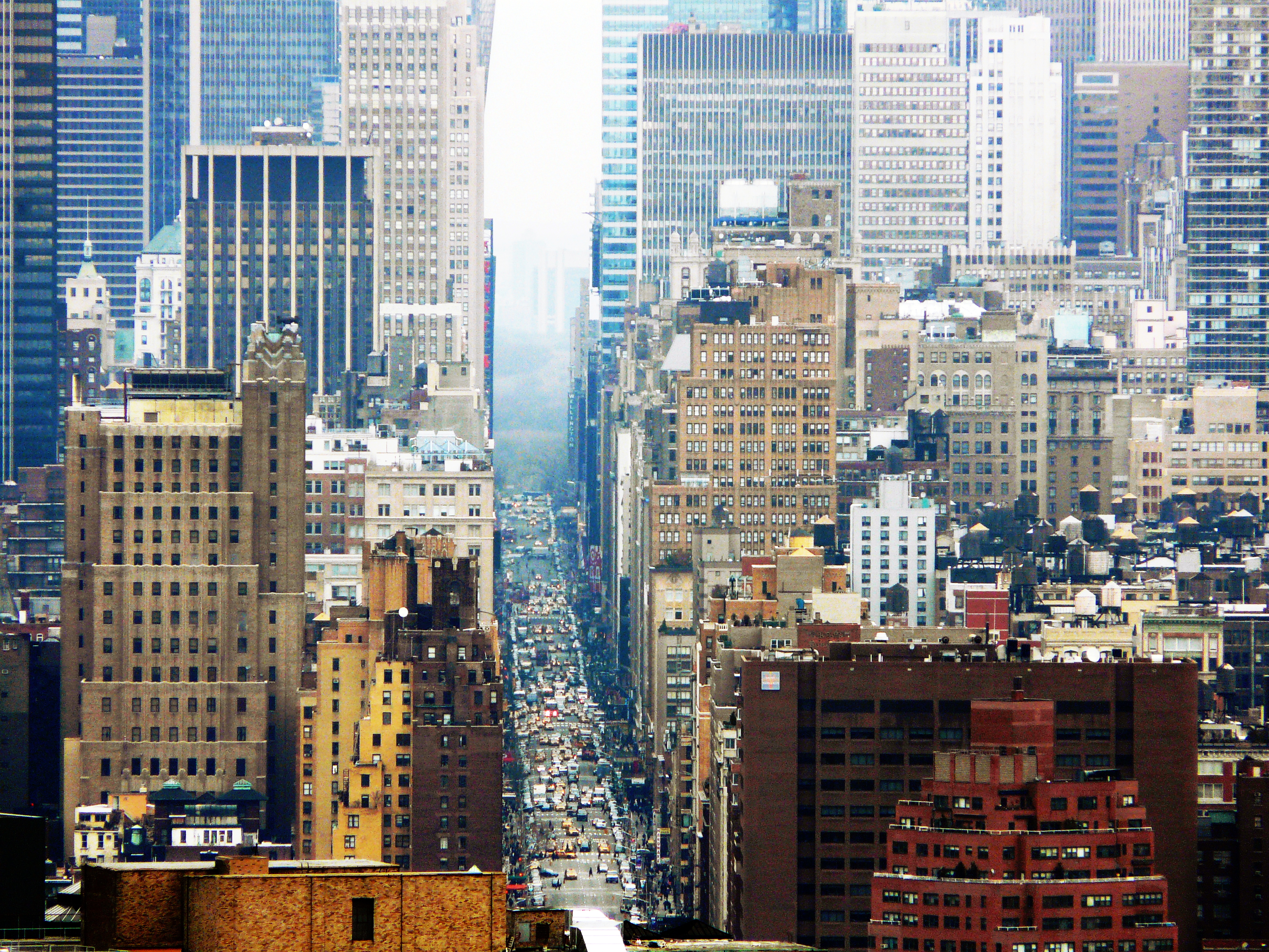 New York